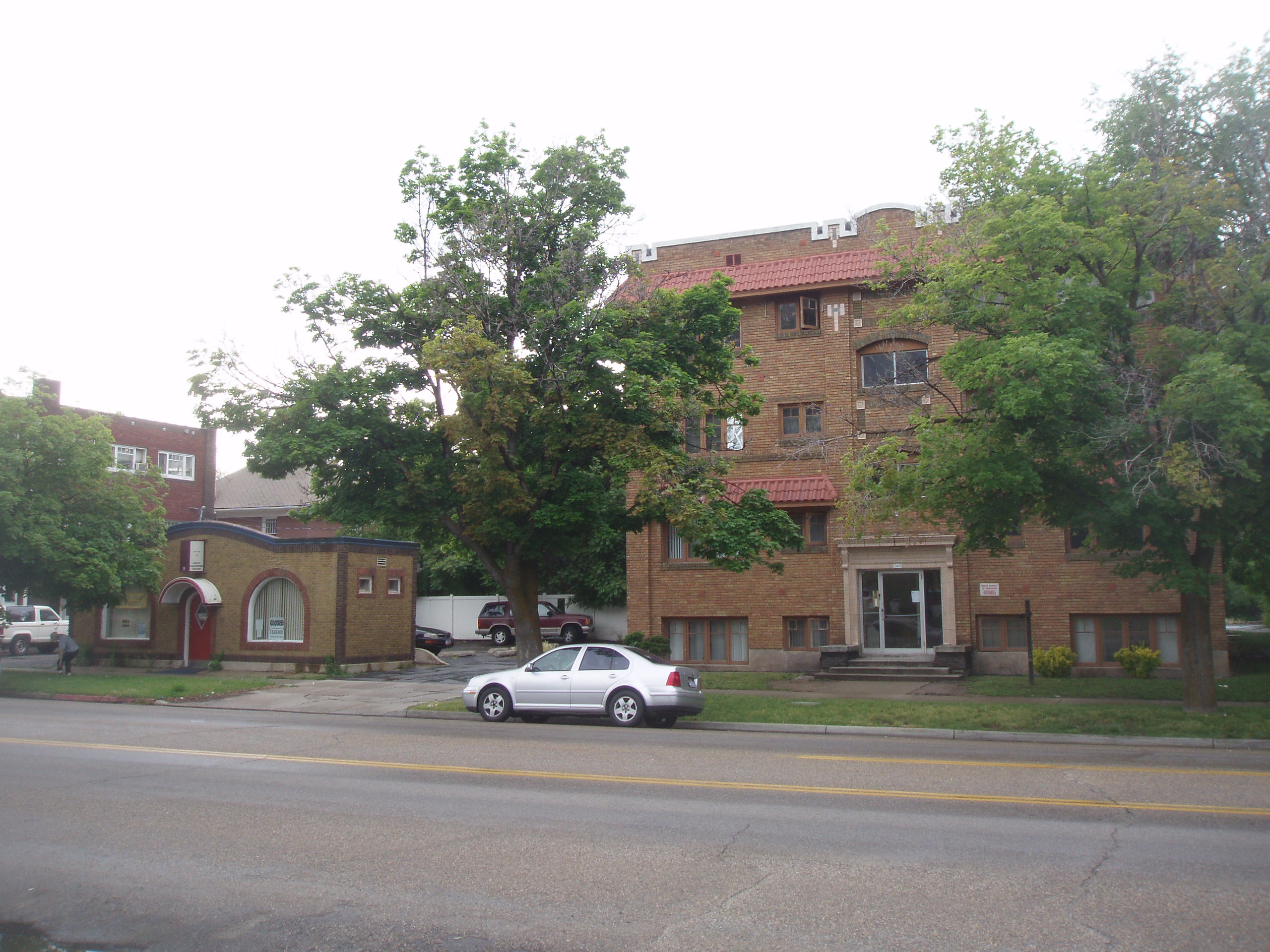 The Fontenelle Apartments, a historic building in Ogden, Utah, United States.